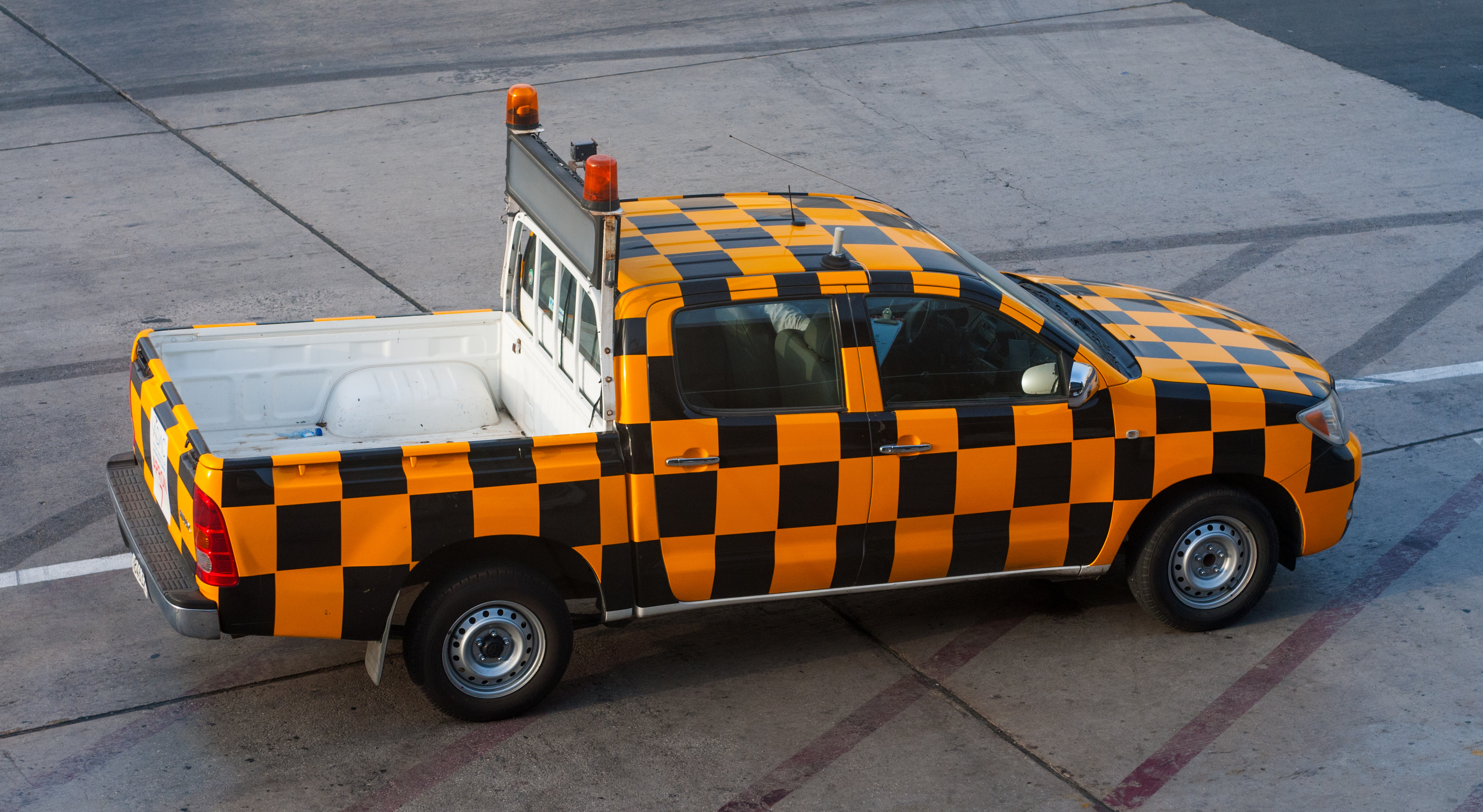 Toyota Hilux at Abu Dhabi International Airport